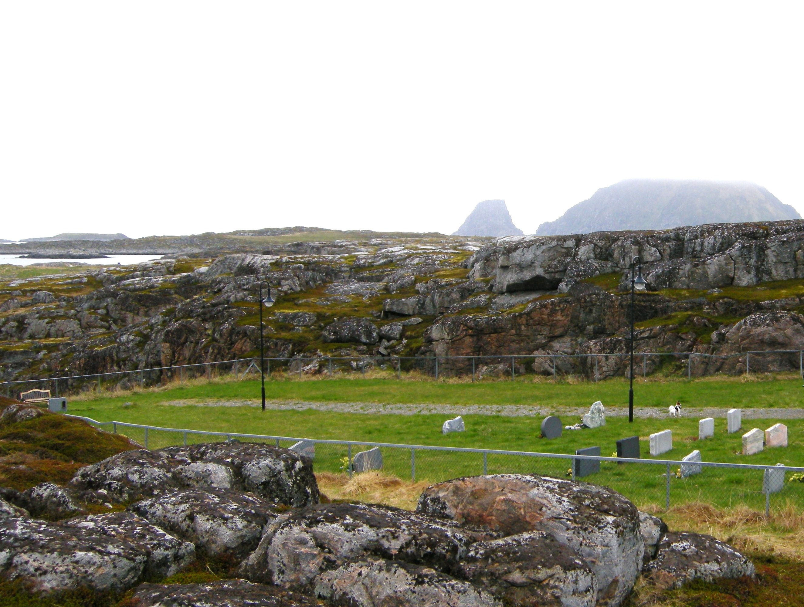 Gjesvær churchyard, Norway